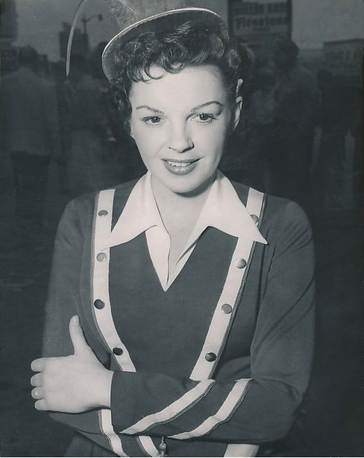 Judy Garland during filming in a drive-in restaurant for her role in the WB film A Star is Born.